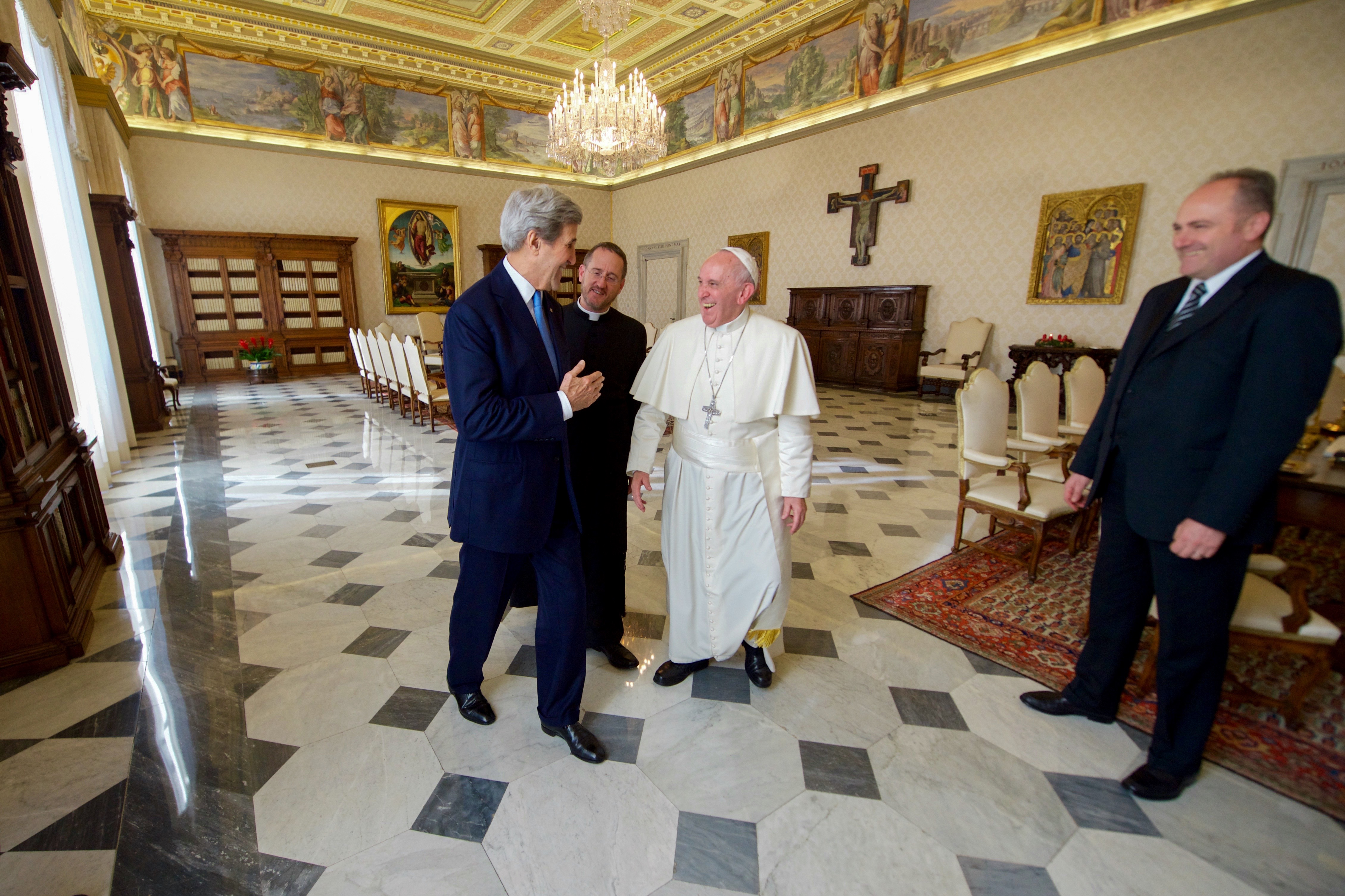 U.S. Secretary of State John Kerry shares a laugh with Pope Francis on December 2, 2016, following a one-on-one meeting in the Papal Apartments at the Vatican in Vatican City. [State Department photo/ Public Domain]